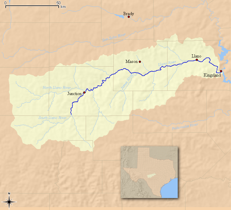 This is a map of the Llano River watershed in Texas. I, Kuru, created from data originating at the USGS.